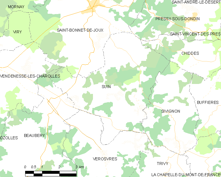 Map of French municipality